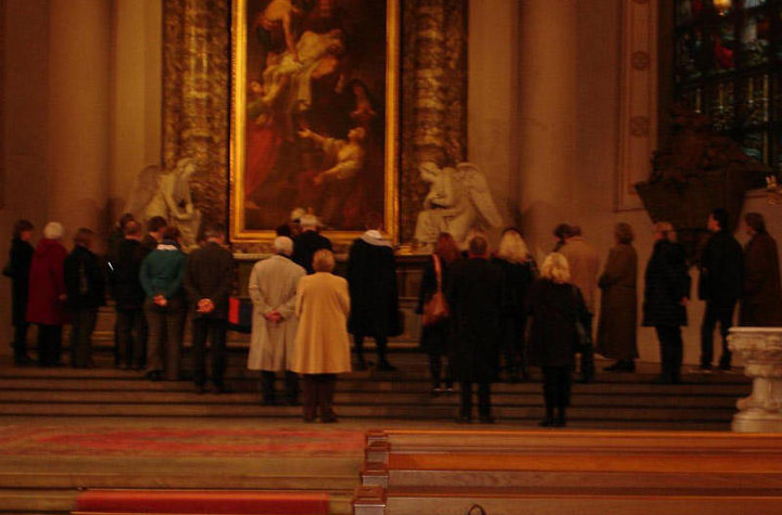 Rev. Sahlberg and FamSAC relatives honor a great-grandfather (August T. Anderson) on the 100th anniversay of his deathPlace:St. Clare's Church, Stockholm, Sweden